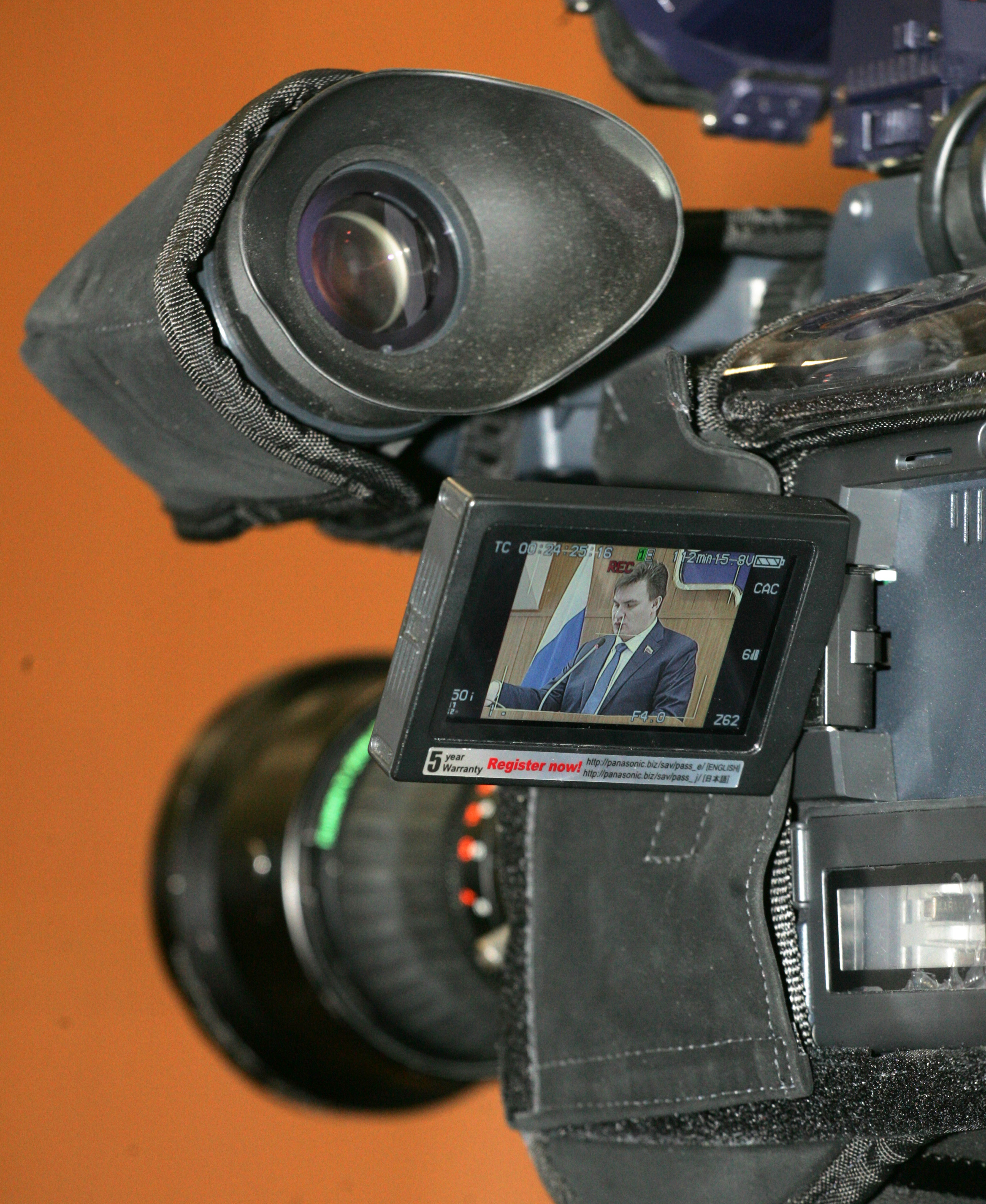 Two separate electronic viewfinders of ENG digital camcorder. B&W monocular at the top, color flat at bottom.